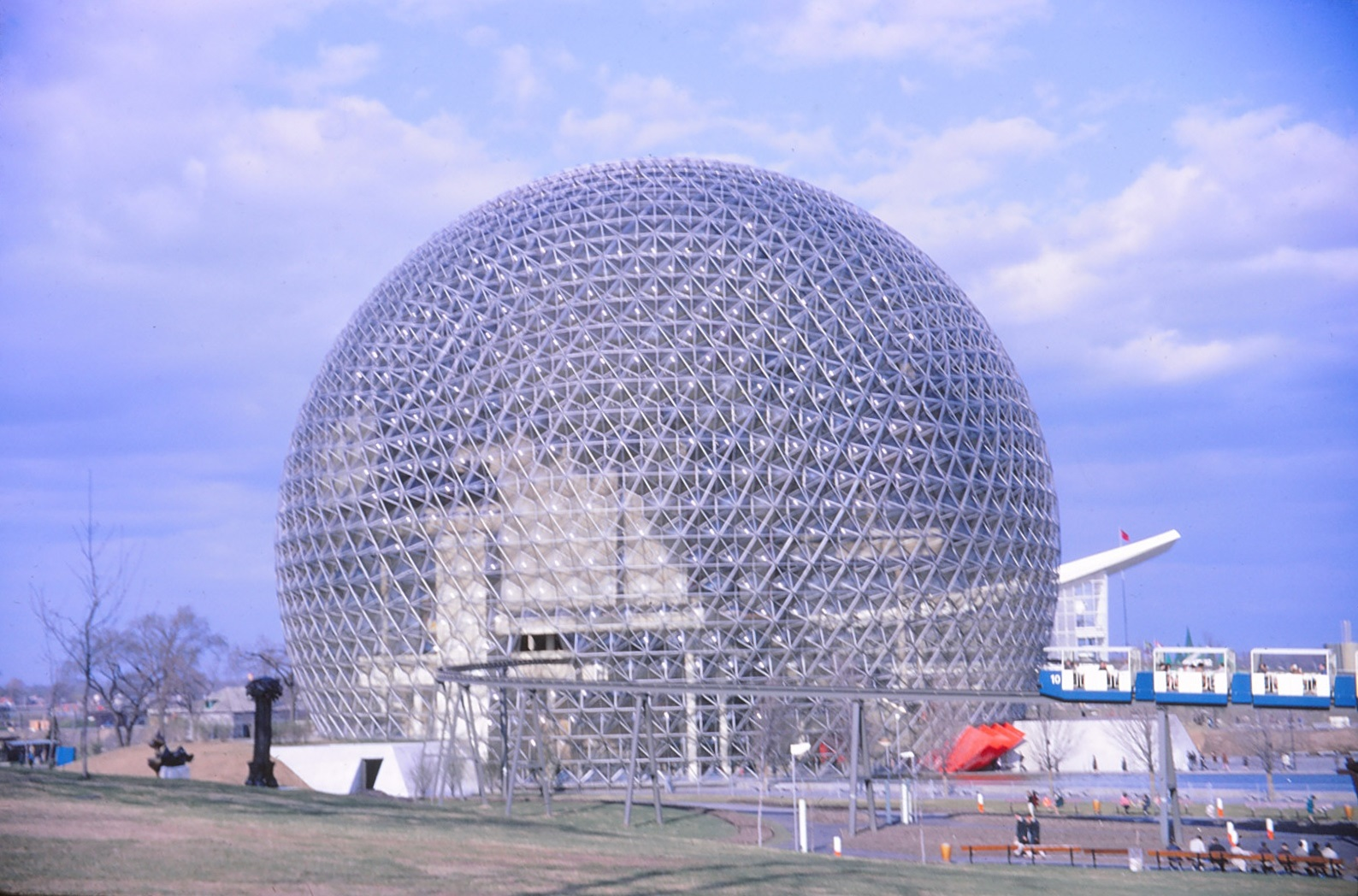 The United-States Pavilion: a geodesic dome designed by the architect Richard Buckminster Fuller. The Minirail goes through the USA Pavilion. Expo 67, Montreal, Quebec, Canada, 1967.